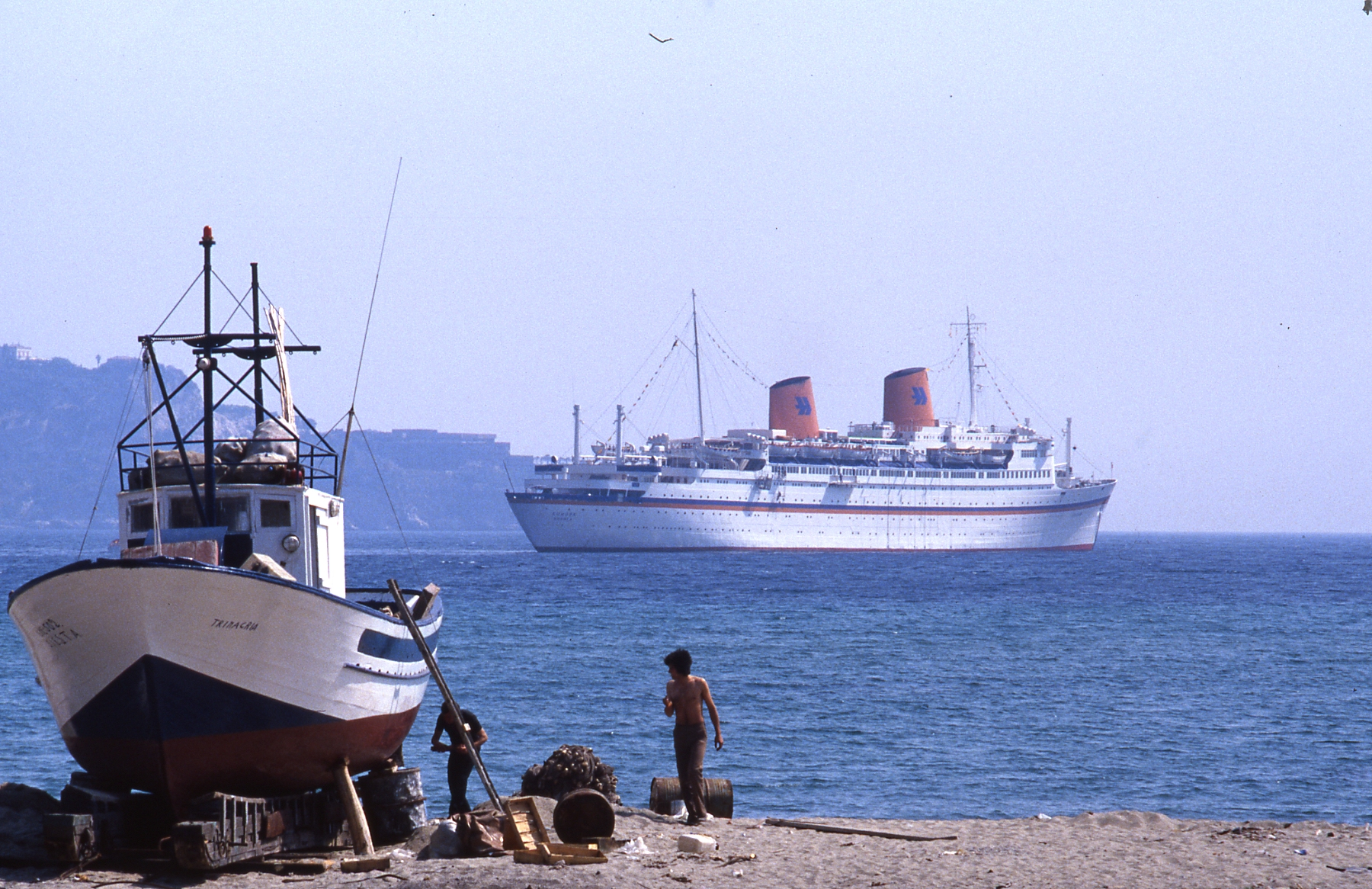 MS Europa Taormina/Sicilia/Italia 1979